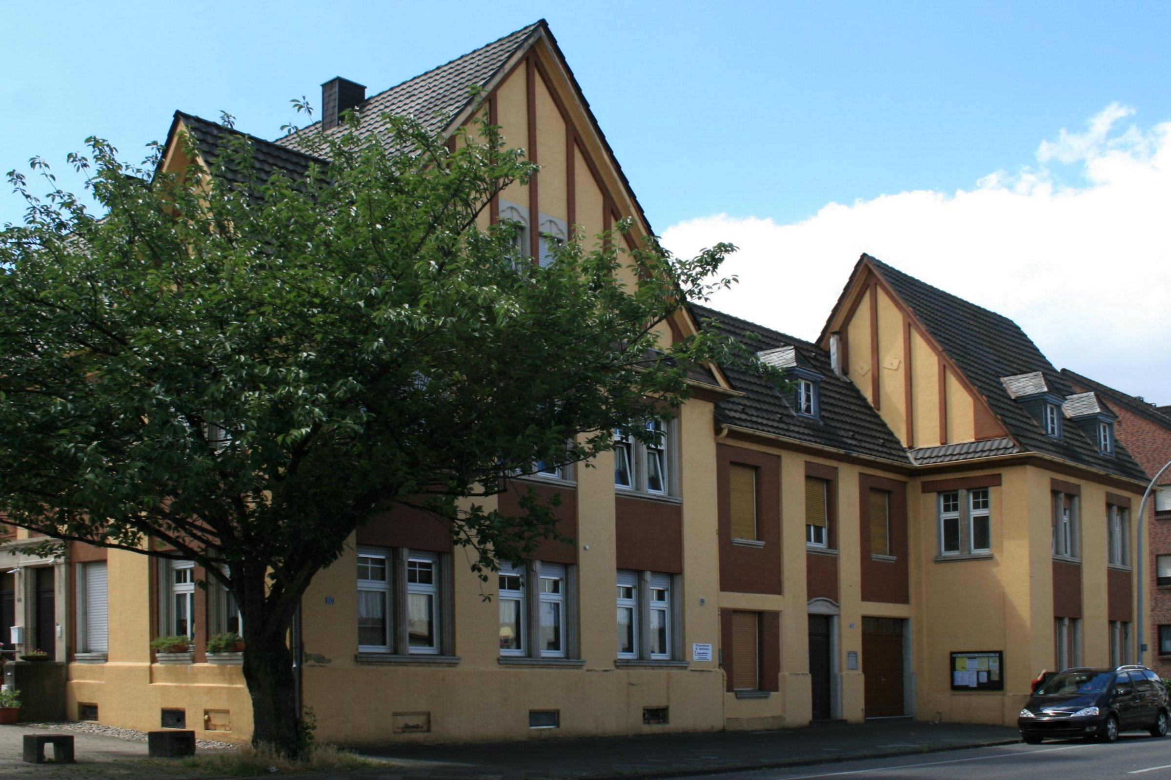 Cultural heritage monument No. H 071 in Mönchengladbach